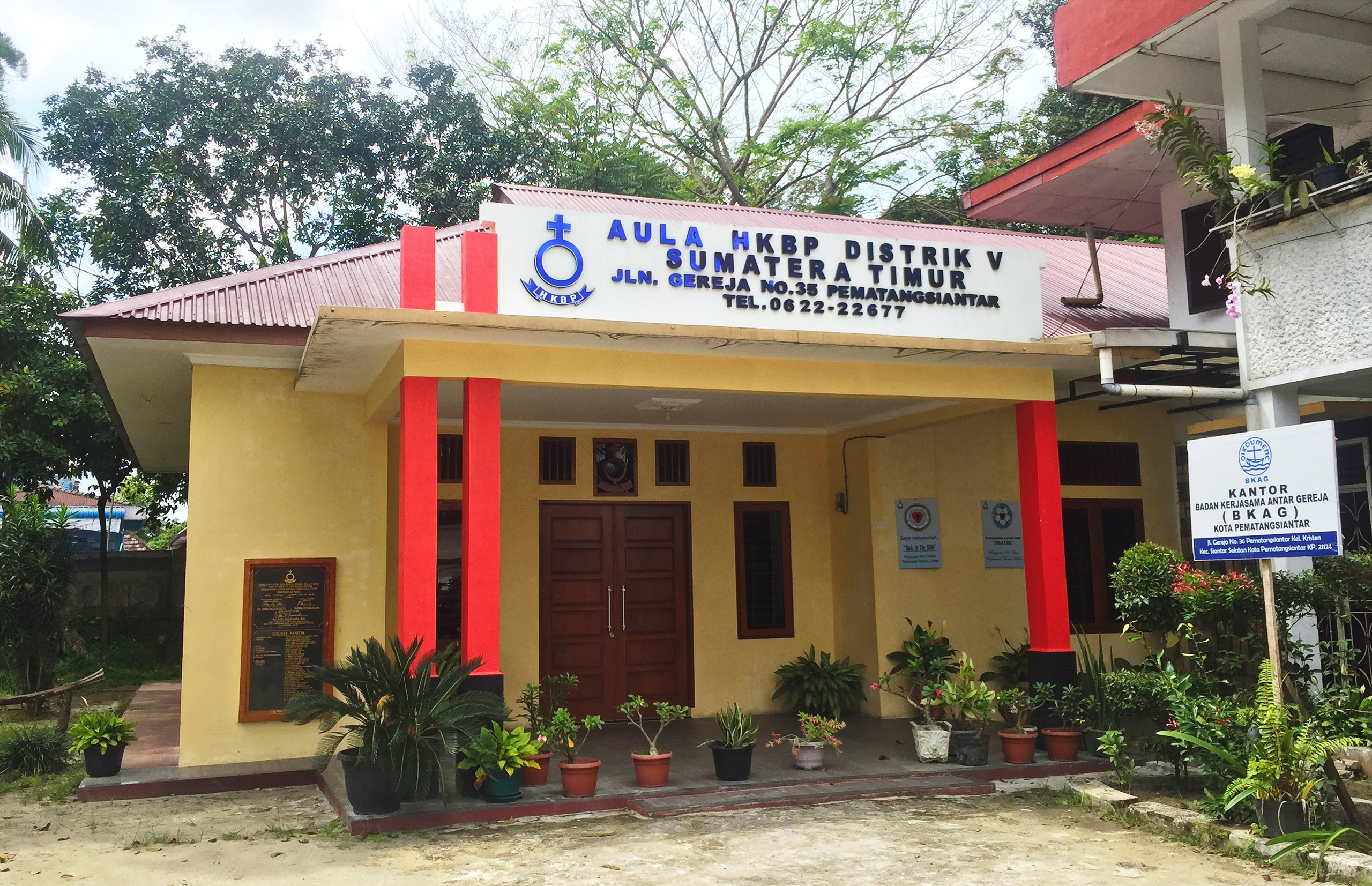 Office of HKBP Distrik V Sumatera Timur in Pematangsiantar